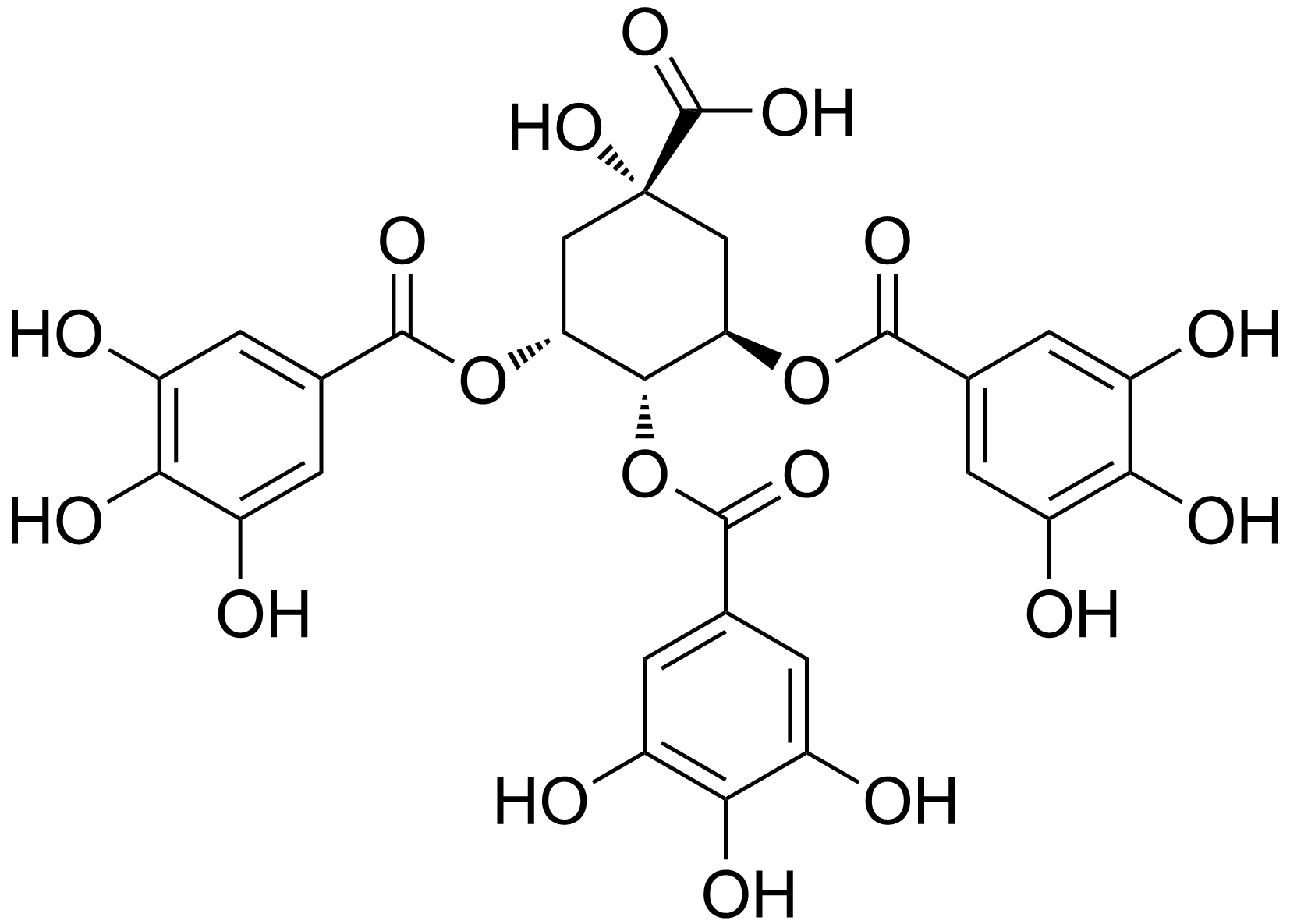 Chemical structure of 3,4,5-tri-O-galloylquinic acid (TGQA)